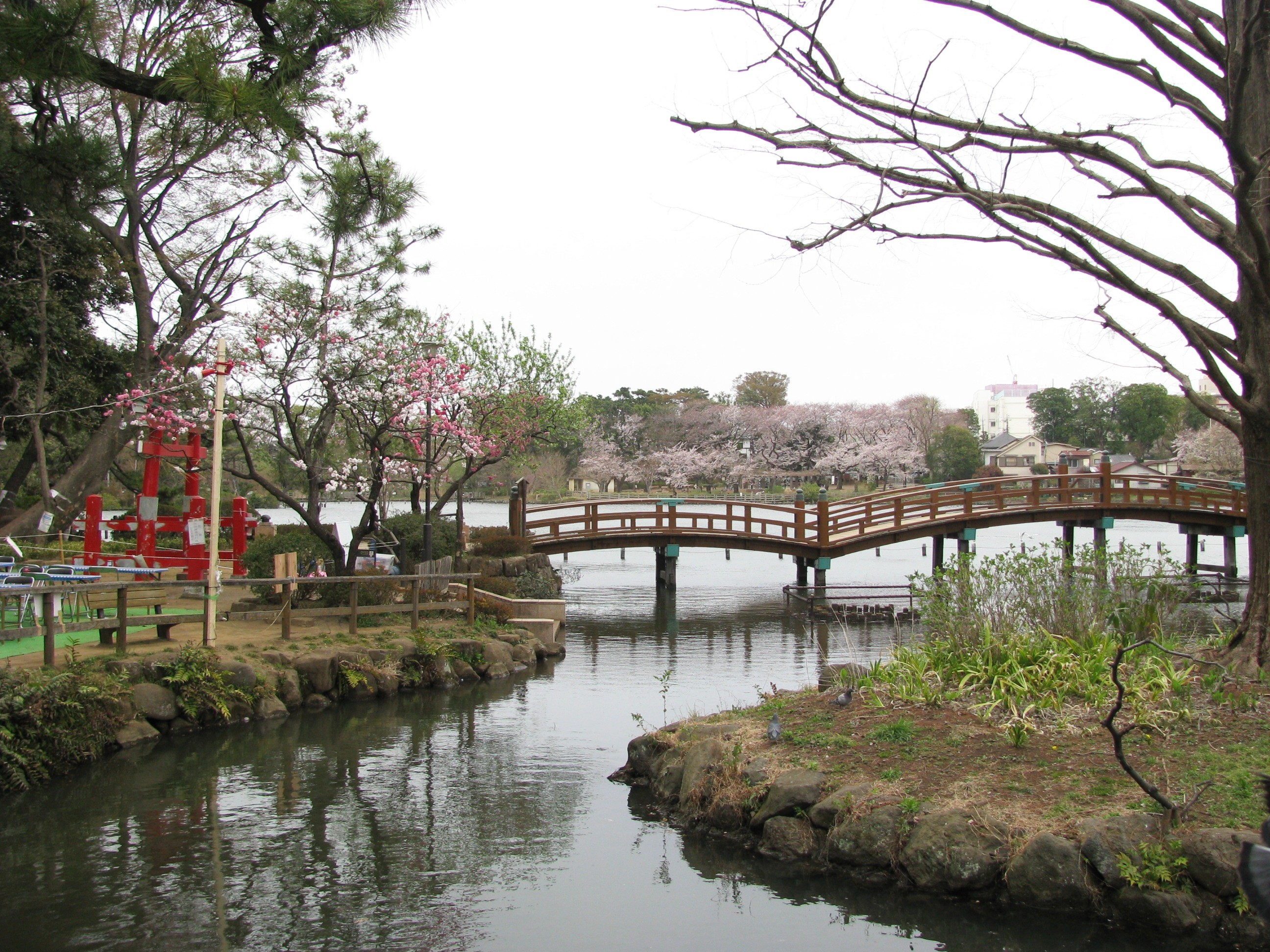 The Senzoku-ike. This place is Ota, Tokyo, Japan.